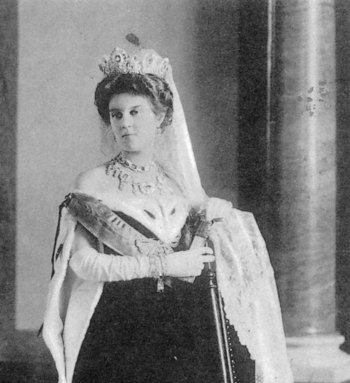 Princess Marie of Sweden, Duchess of Södermanland (1890–1958), née Grand Duchess Maria Pavlovna of Russia in Swedish court gown.